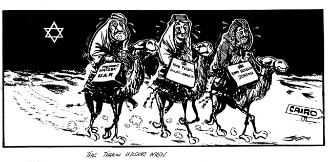 The Three Wiser Men - Returning to Egypt at the end of the Six Day War.